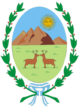 Coat of arms of San Luis Province, Argentina.